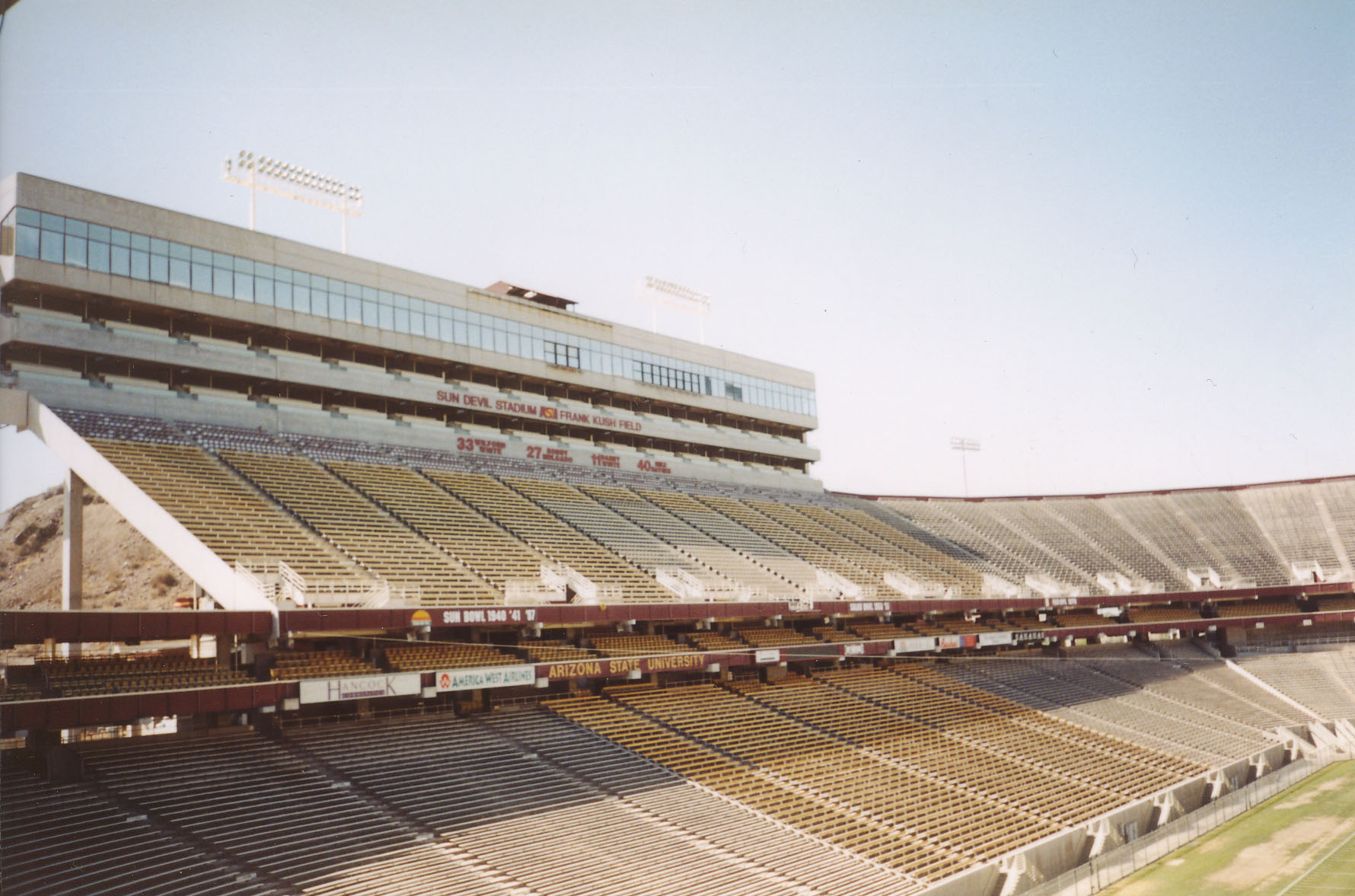 Football & Basketball Facilities Arizona State Football Stadium